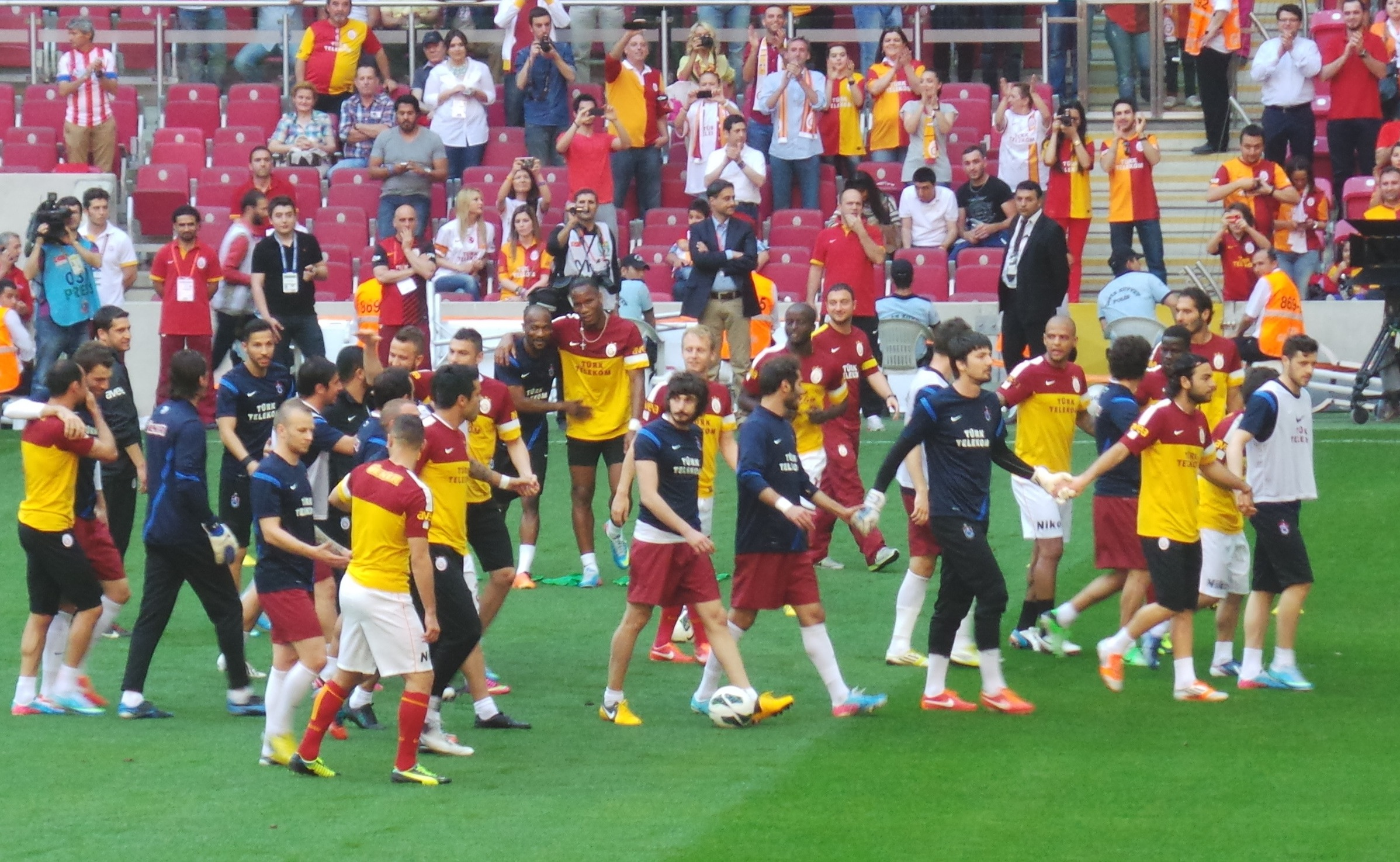 GS Trabzon maç öncesi bütün futbolcular el ele tribünleri selamladı